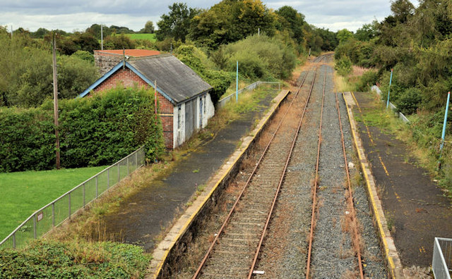 Ballinderry station. The closed Ballinderry station, on the �mothballed� Lisburn � Antrim line (looking towards Crumlin and Antrim), seen from the overbridge on the old part of the Glenavy Road. There was no footbridge. Passengers were expected to... more